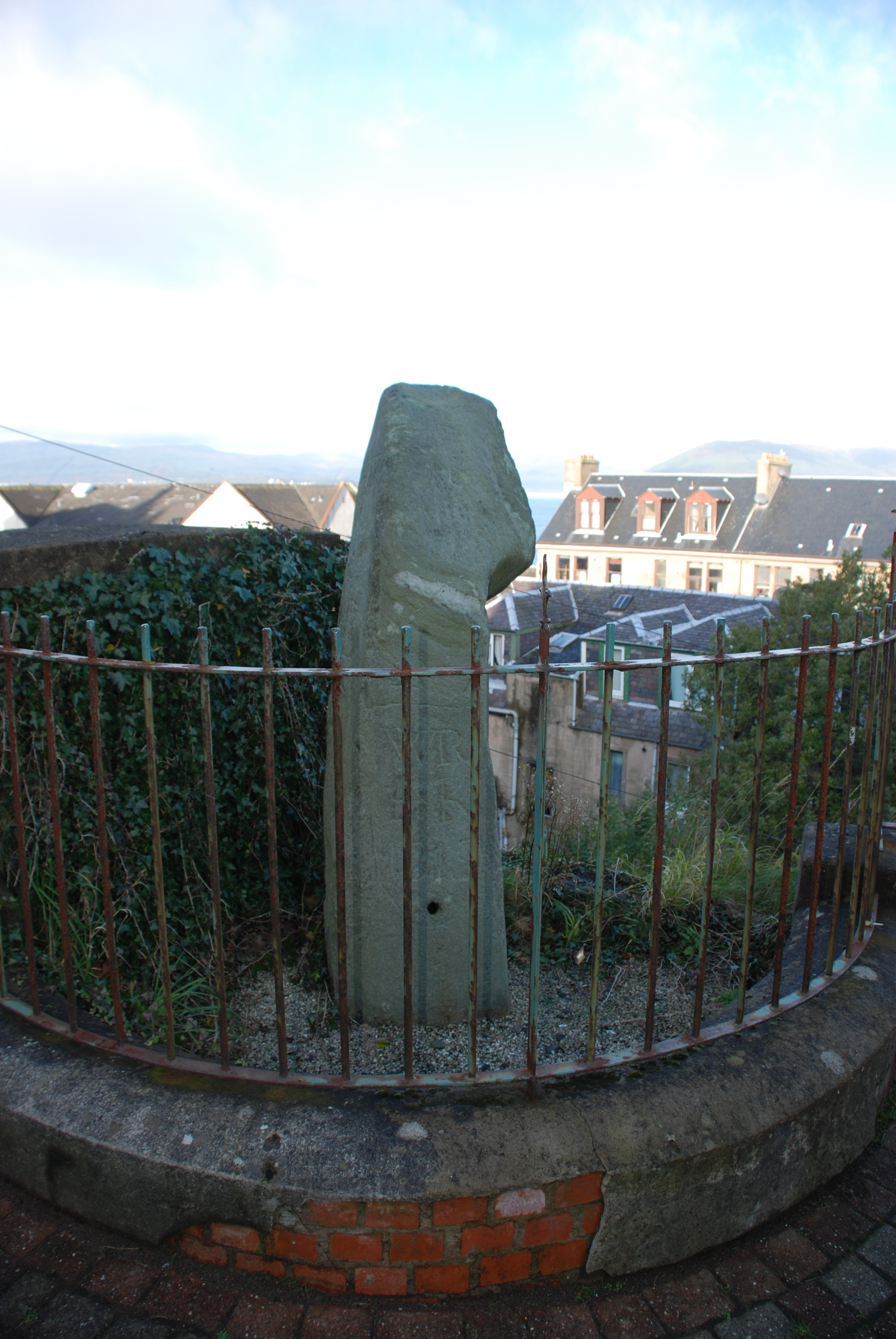 Granny Kempock Stone, GOUROCK, United Kingdom